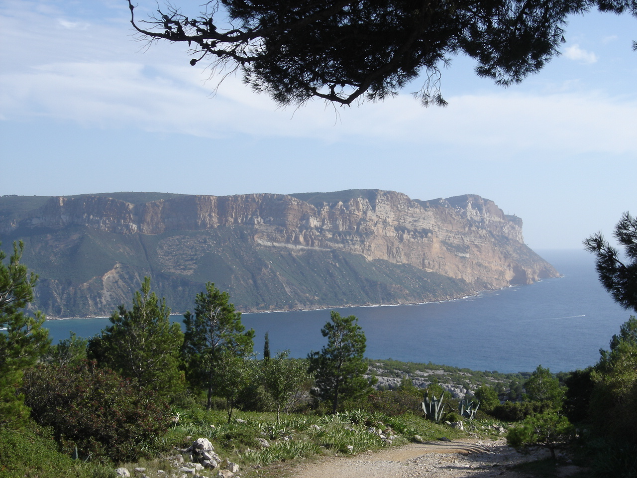 Cap canaille (= Dirty Cape), near Cassis, Department of Bouches du Rhone, France. This portion of the coast is in the PACA region - by BRGM, IFREMER, and the french "Earthquake Master plan" - the site most at risk of "unstable slopes withmobilizationbrutal field" when significant seismic. The collapse of the terrestrial and submarine such a structure would generate a Tsunami and a wave background can resuspend enormous amount of fine particles from the underwater industrial discharge close (Fosse Cassidaigne) of plant Pechiney / Alcan Rio Tinto. in french, this sort of area is called "tsunamogéniques"